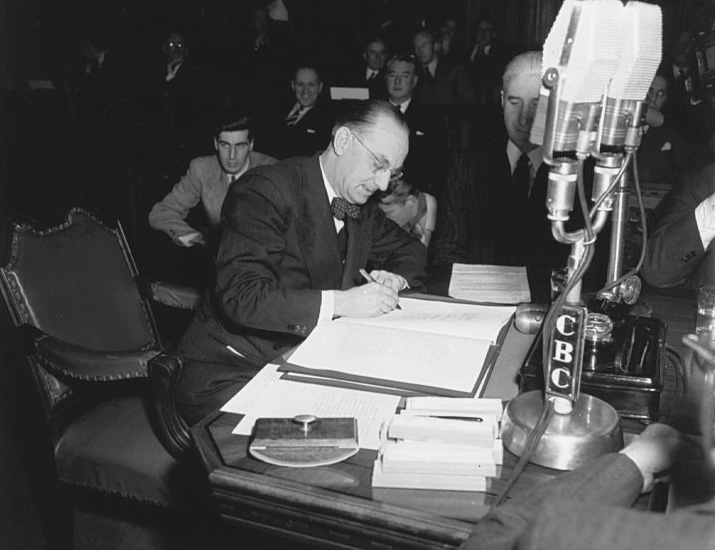 Mr. Joseph Smallwood signing the agreement which admitted Newfoundland into Confederation. Hon. A.J. Walsh, chairman of the Newfoundland delegation, is at the right.